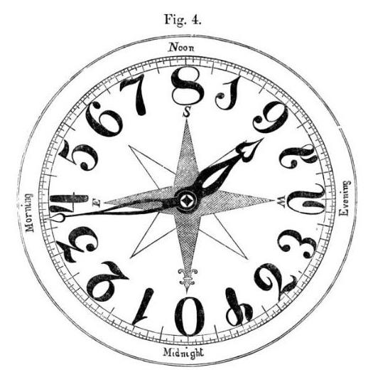 Hexadecimal Clock, published in 1862 by John W. Nystrom as a part of his "tonal system" proposal - the attempt to replace the decimal by the hexadecimal system